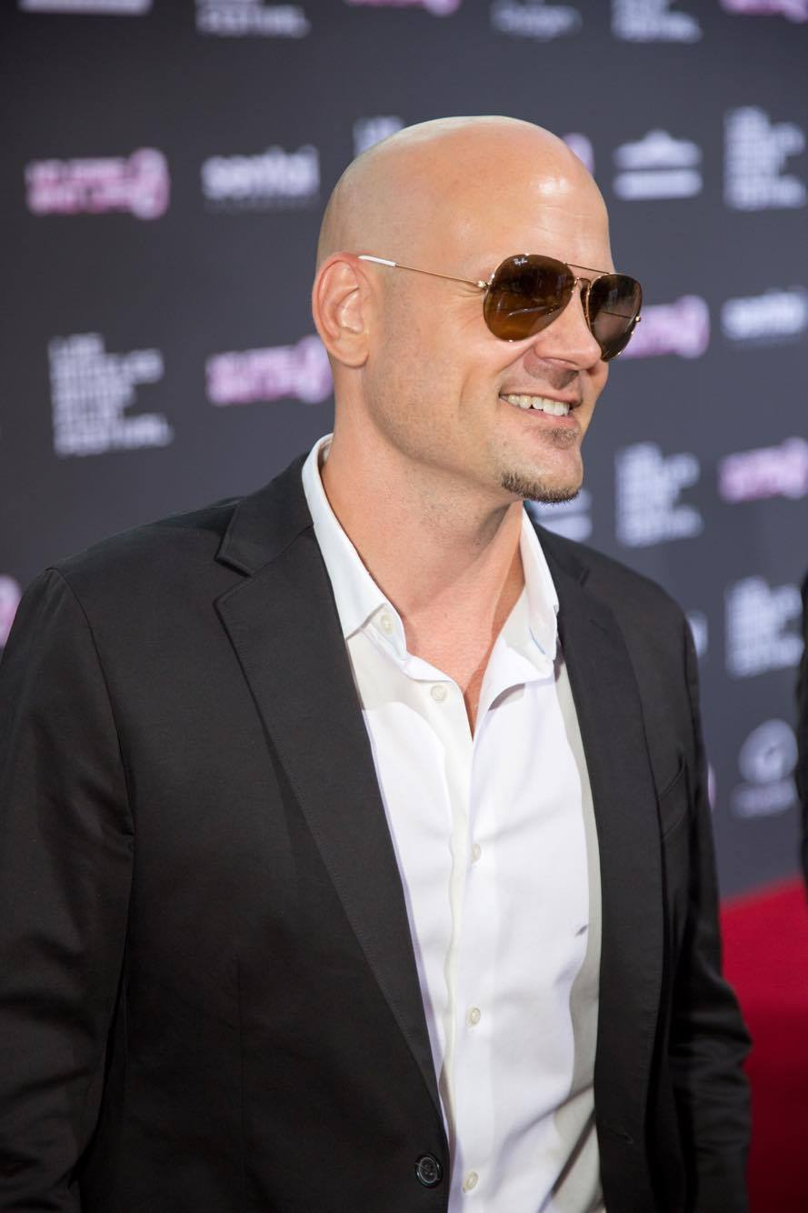 Special guest at the Red Carpet event for LA Anime Film Festival celebrating 100 years of Anime